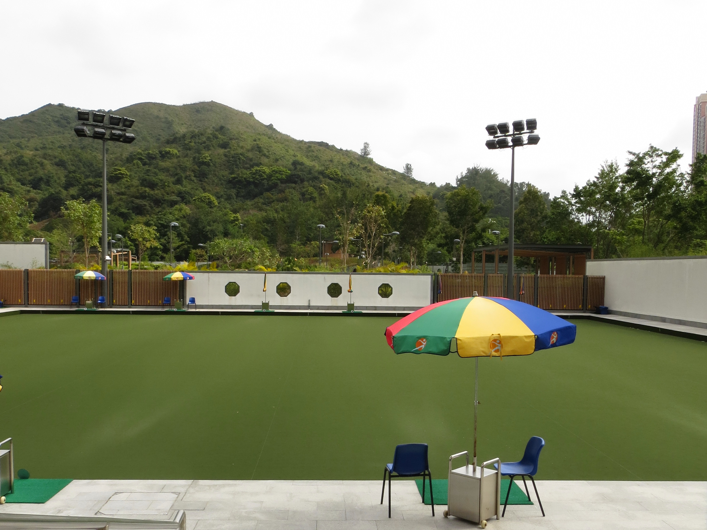 Bowling Green, Hang Hau Man Kuk Lane Park, Tseung Kwan O, Hong Kong.